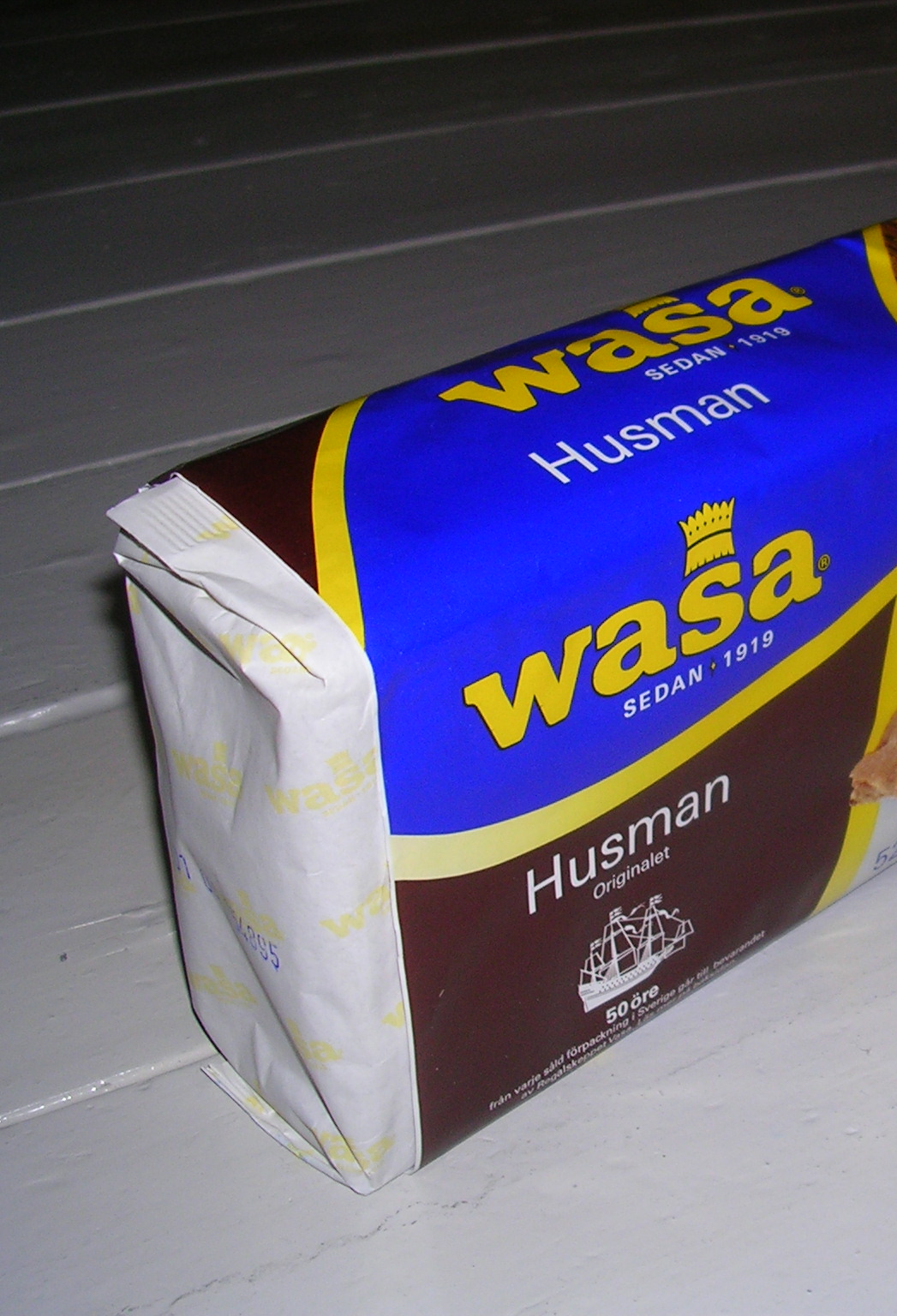 Crisp bread package from Wasabröd.